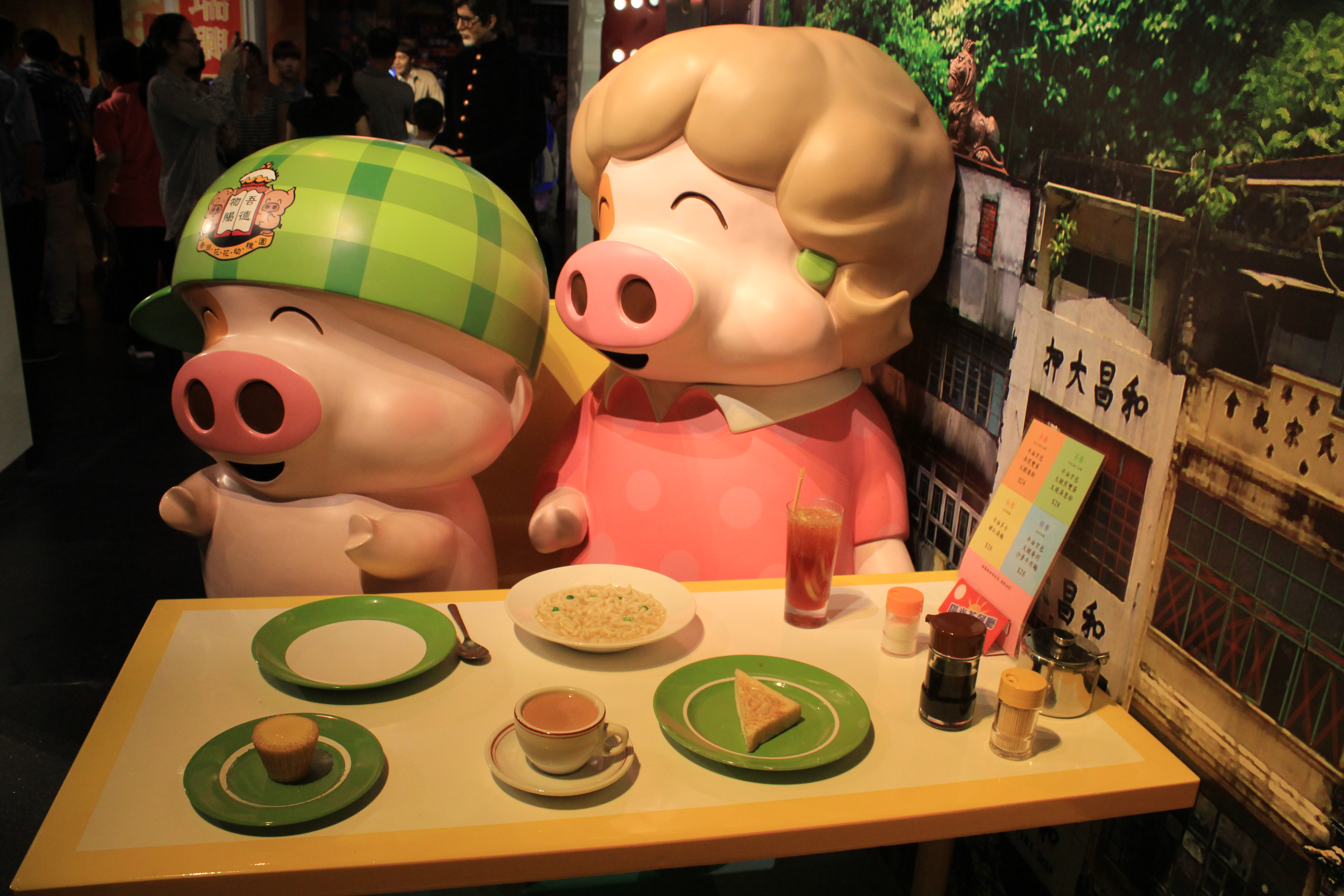 McDull & Madame Mak statues at Madame Tussauds, Hong Kong.